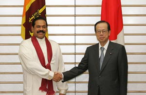 Mahinda Rajapaksa, President, met Yasuo Fukuda, Prime Minister, at the Prime Minister's Official Residence in Chiyoda Ward, Tōkyō Metropolis on December 10, 2007.